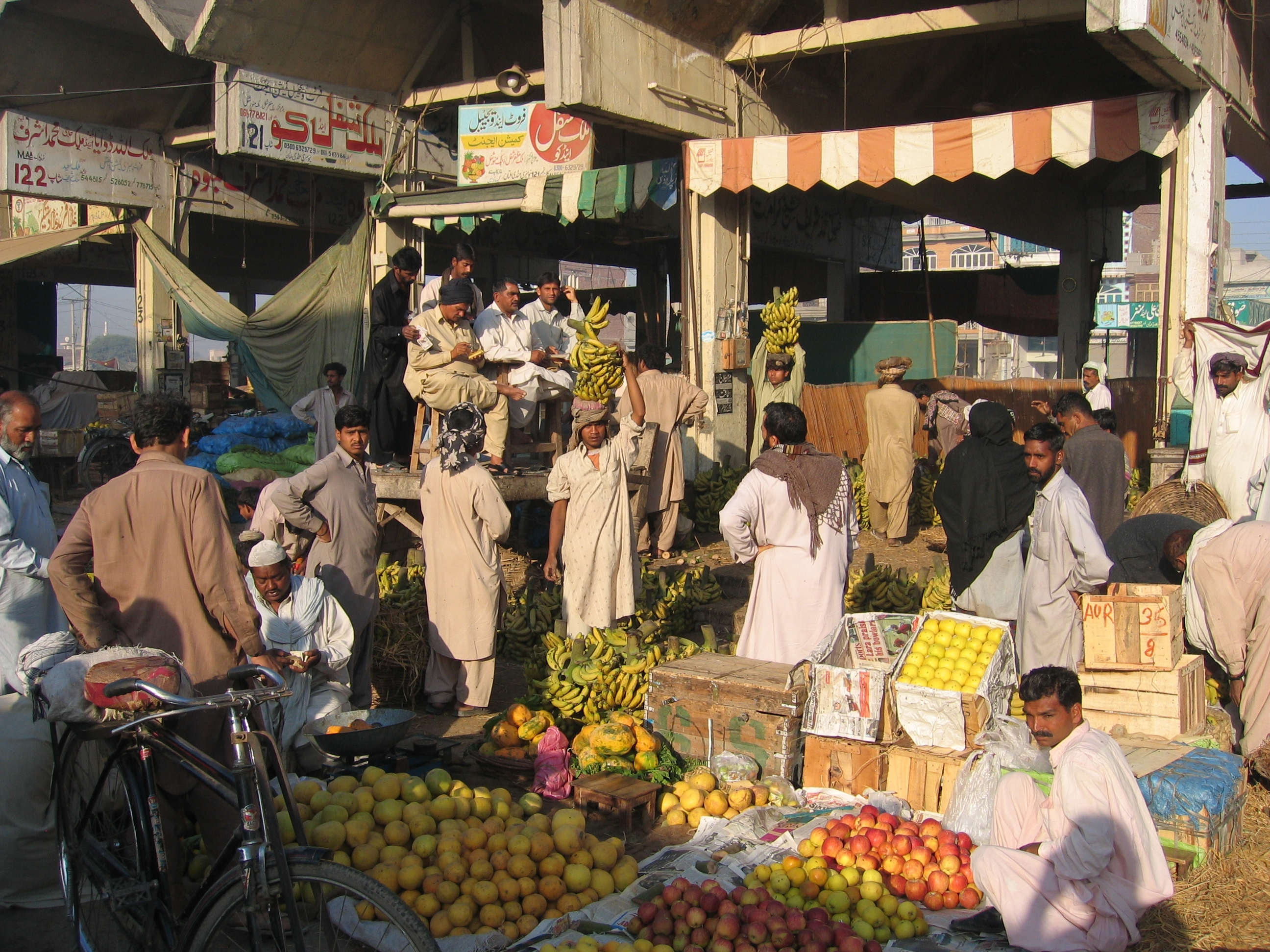 Fruit (apples, kinnow and bananas) and vegetable market in Multan (town in central Punjab Province, Pakistan). Visit related to scoping of ASLP mango production and mango supply chain projects. Photo by Christian Roth. to request a high resolution original.